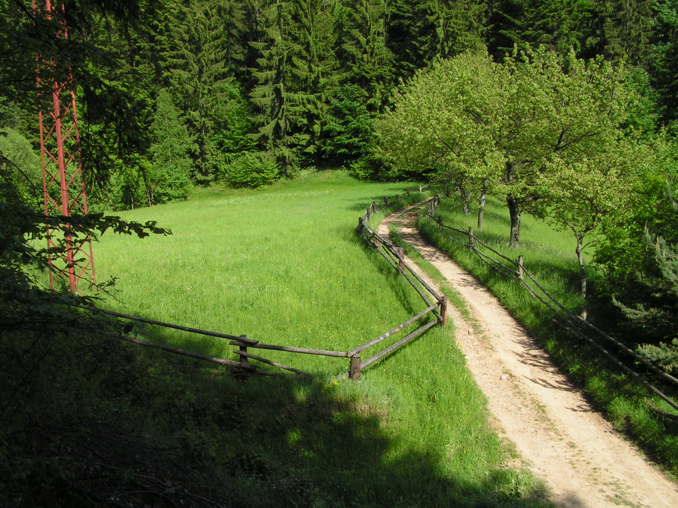 Crown of the Brenner Teich dam is 100 m long and 30 m wide